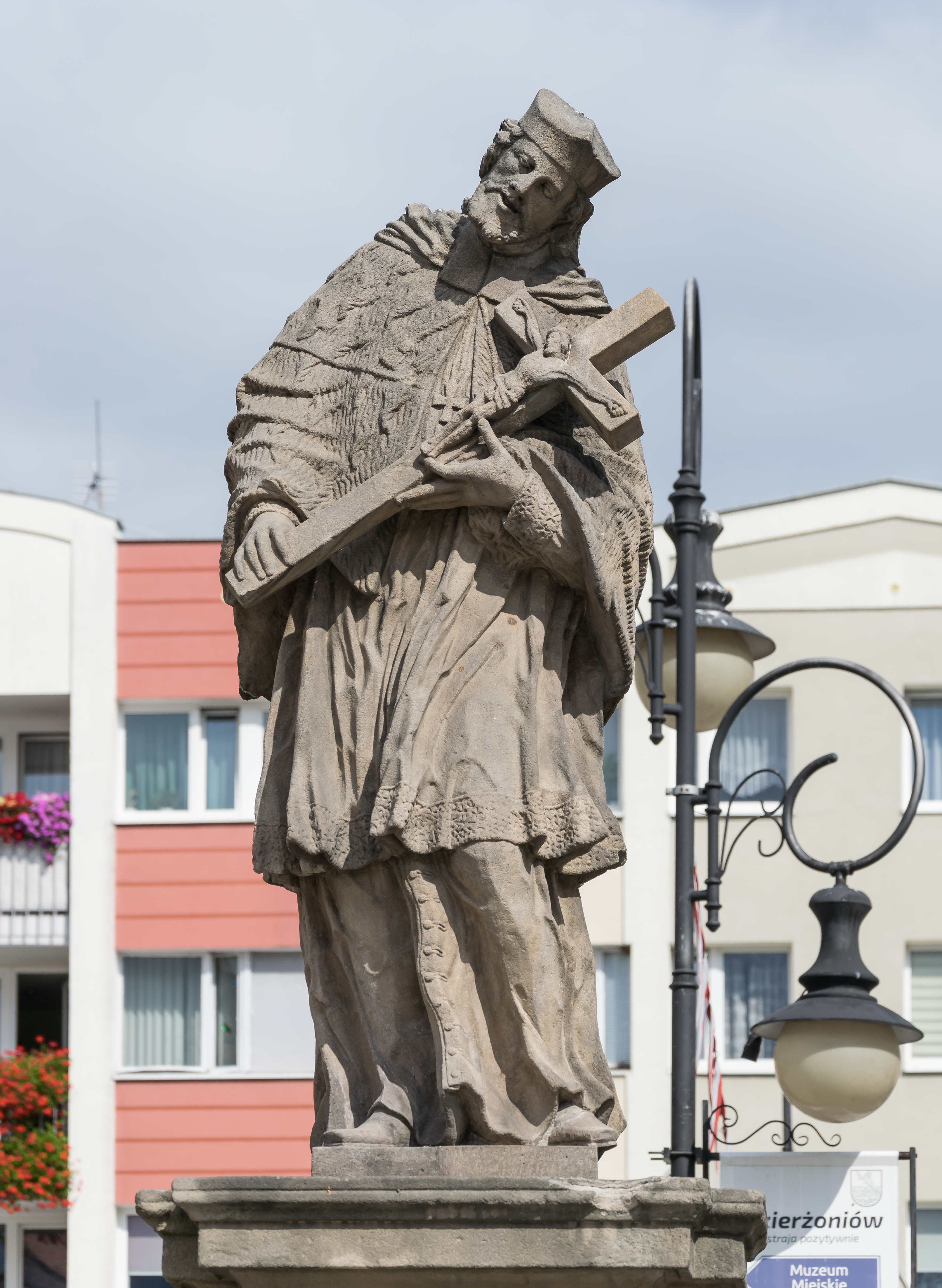 John of Nepomuk statue in Dzierżoniów